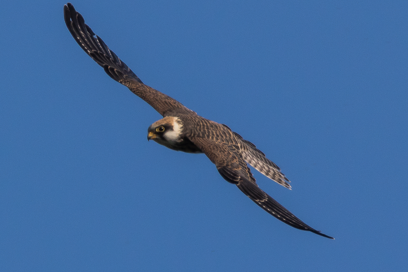 This is an image of the Biosphere Reserve: Astrakhan Nature Reserve